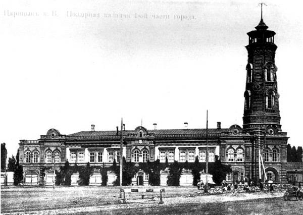 Tsaritsyn. Fire tower